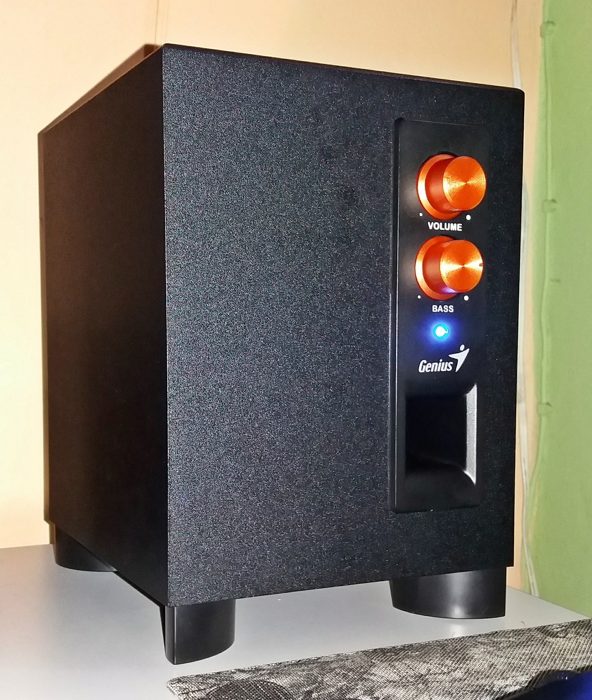 Front of a Genius SW 2.1 360 subwoofer